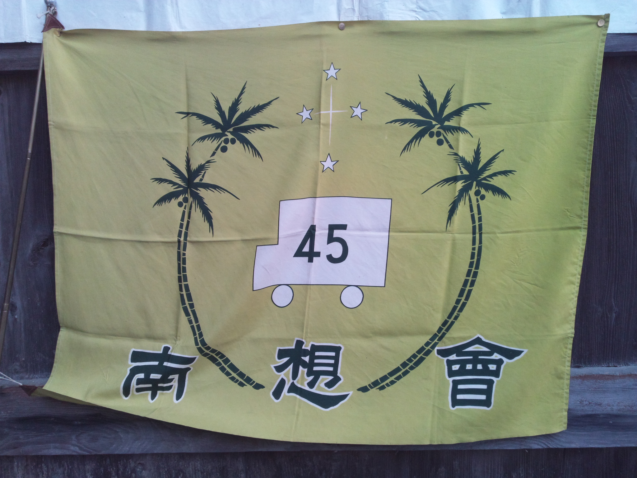 Photo taken at shuzenji,Izu-city,Shizuoka Pref. Japan on 21st July 2013shot at shuzenji,Izu-city,Shizuoka Pref. Japan on 21st July 2013